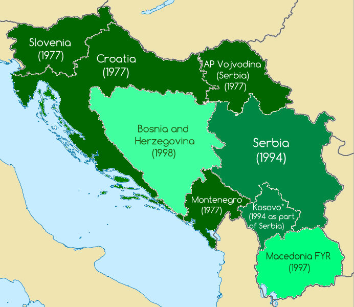 Homosexuality in Yugoslavia was firstly decriminalized in Socialist Republics of Croatia, Slovenia, Montenegro and Socialist Autonomous Province of Vojvodina in 1977.